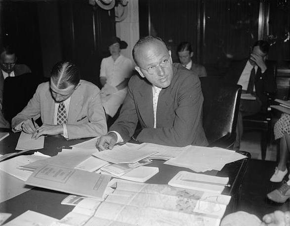 This is an image of Tennessee Valley Authority Director David E. Lilienthal tensifying before a committee of the United States Senate in Washington, D.C., June 29, 1937.